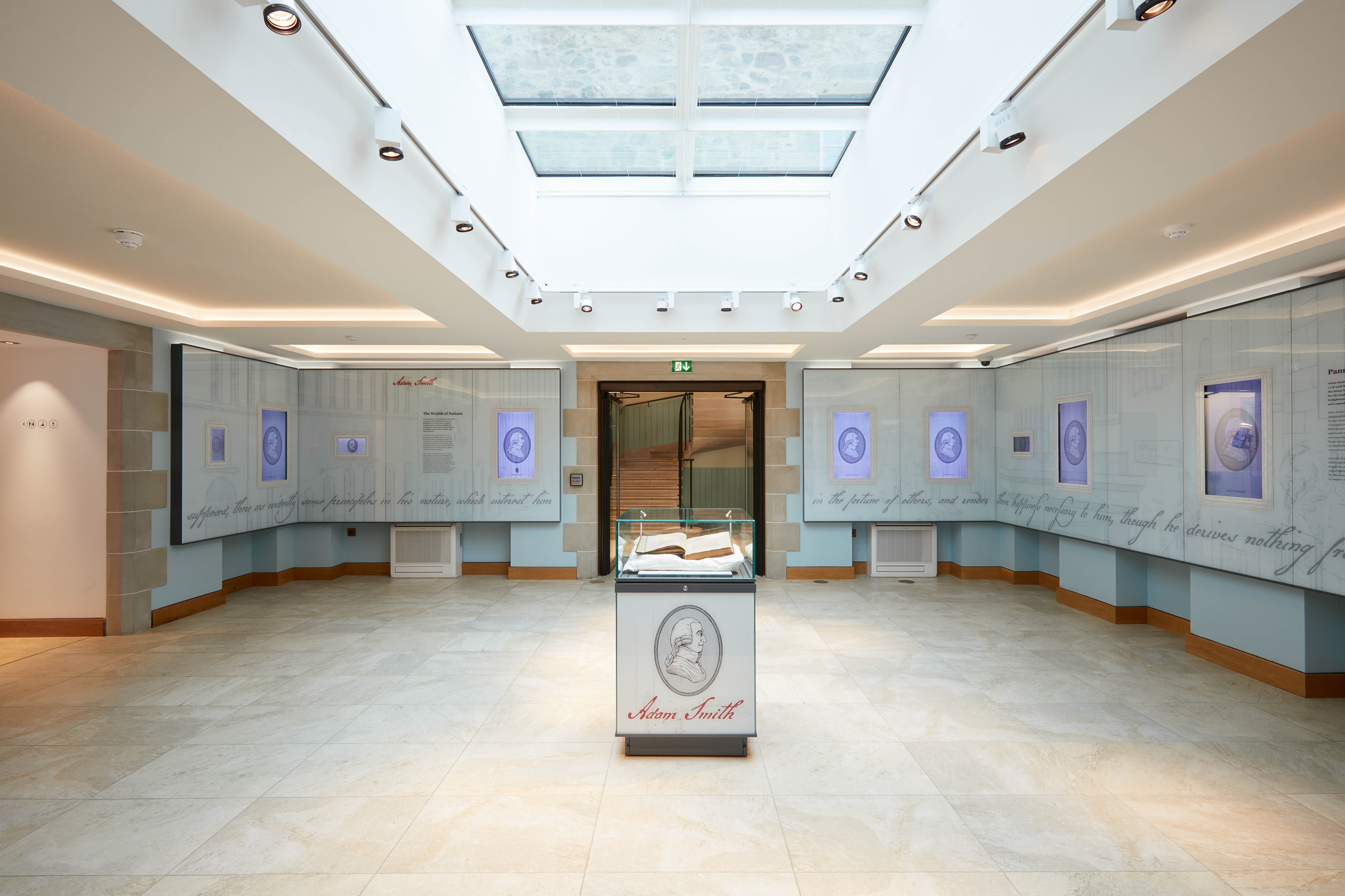 Interior Photo of Panmure House